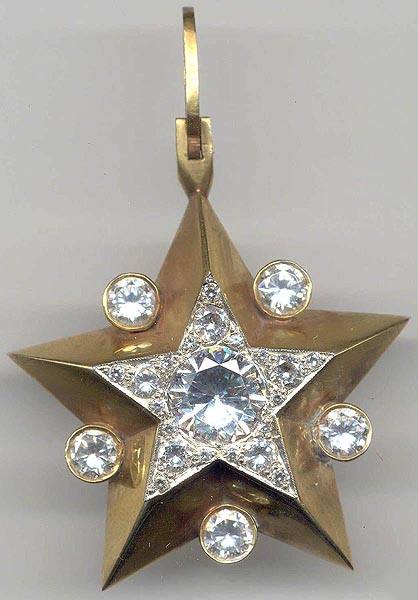 Russian rank insignia, here “Marshal´s start – big” (OF10) for: Marshal of the Soviet Union 1940 – 1992 Admiral of the fleet of the Soviet Union since 1955 and Marshal of the Russian Federation since 1993.